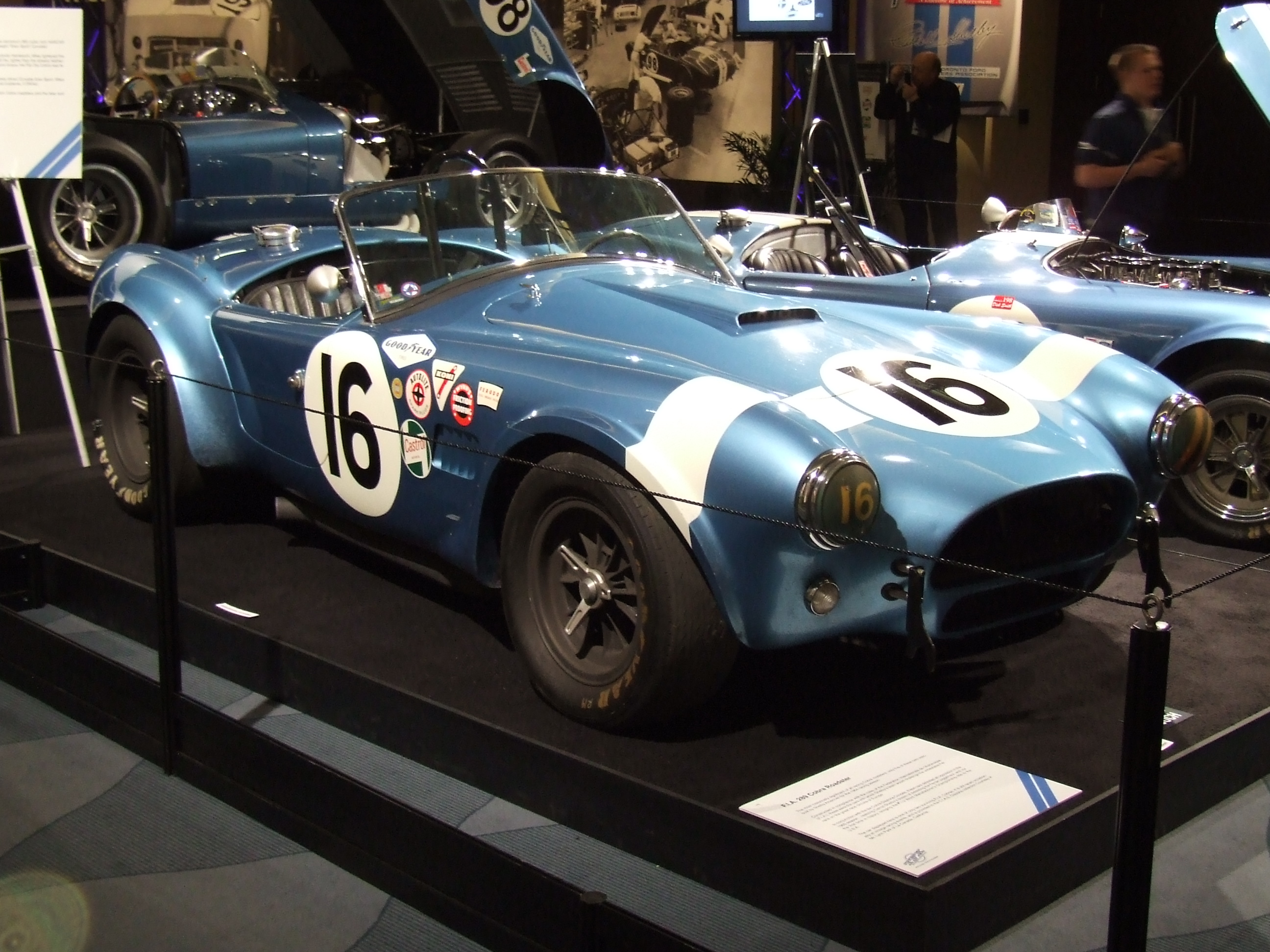 Shelby AC Cobra, one of five 289 FIA roadsters, 2010 Canadian International AutoShow.